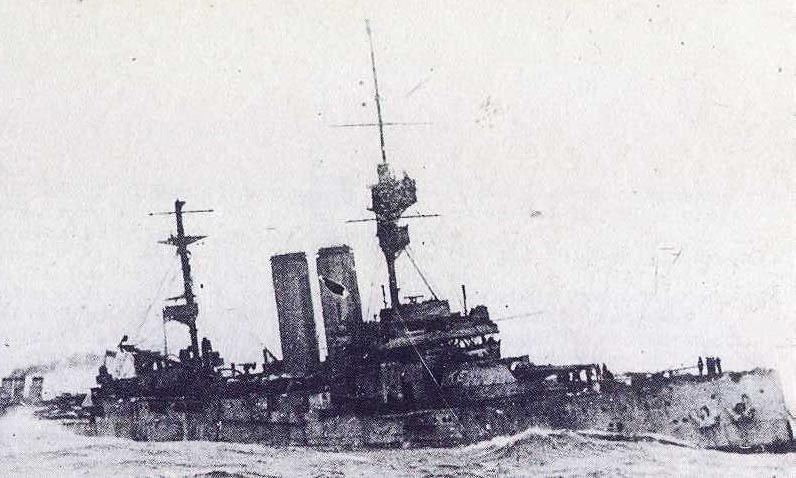 HMS King Edward VII sinking on January 6th, 1916 off Cape Wrath.